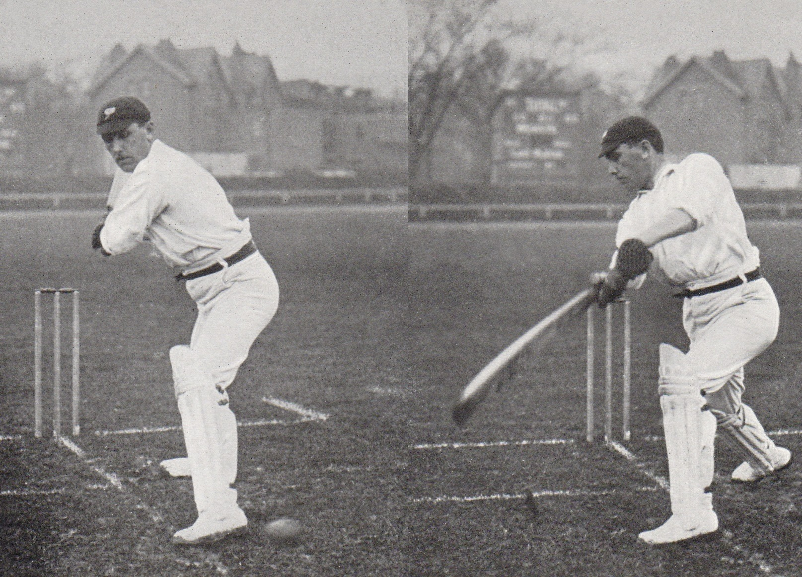 W Rhodes playing an off-drive, photographed by George Beldam (2 images cropped from same page)